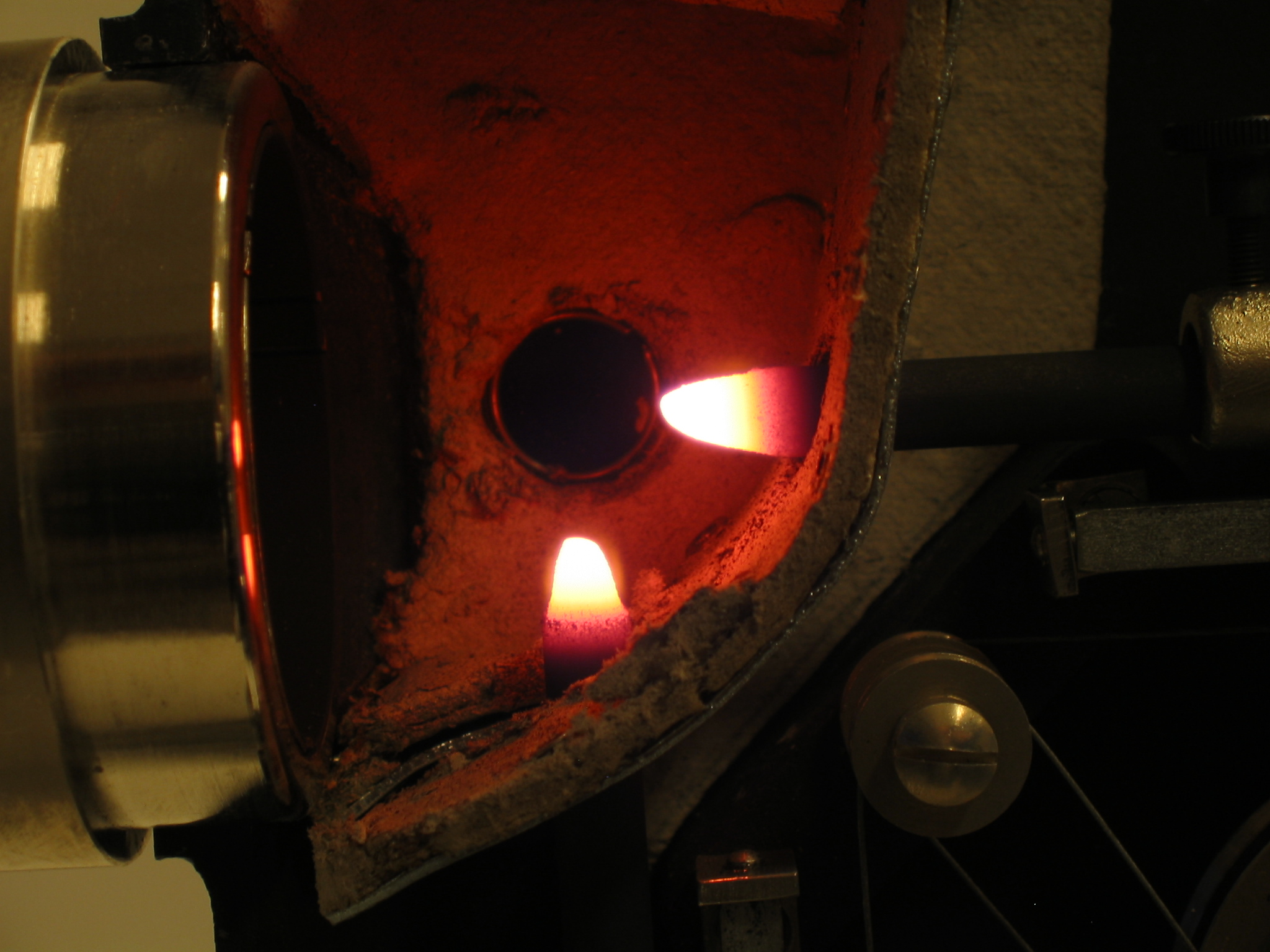 Afterglowing electrodes of an arc lamp